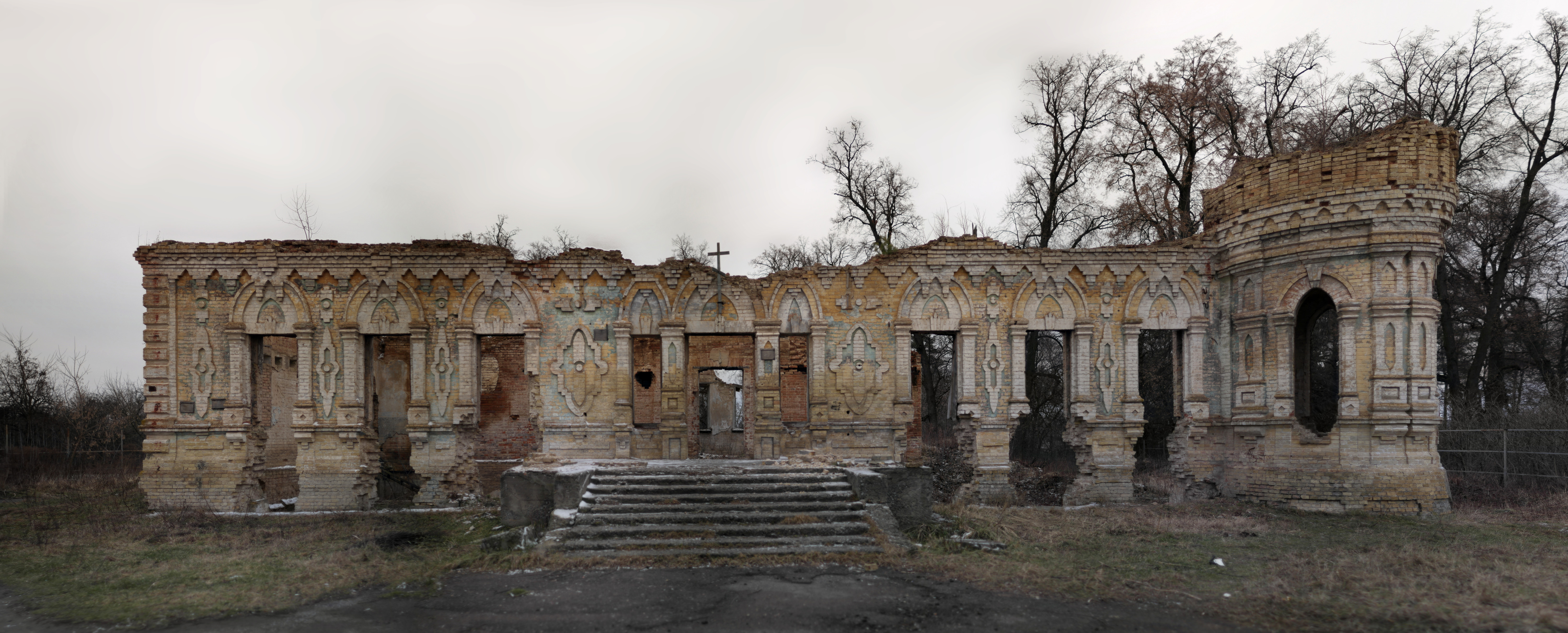 Osten Saken ruins panorama